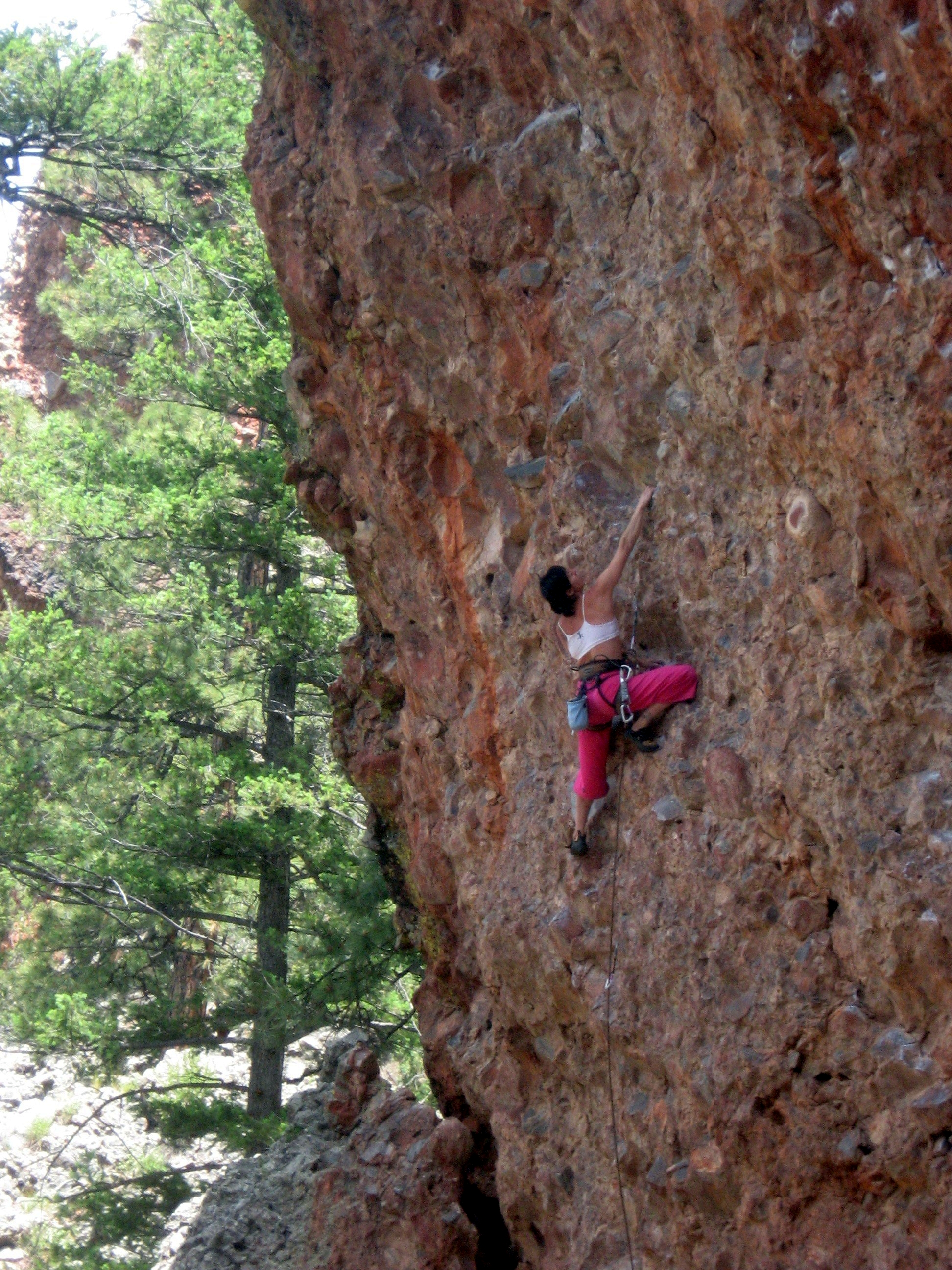 Author:s_mestdagh Fair Use Rationale:Attribution-Share Alike 3.0